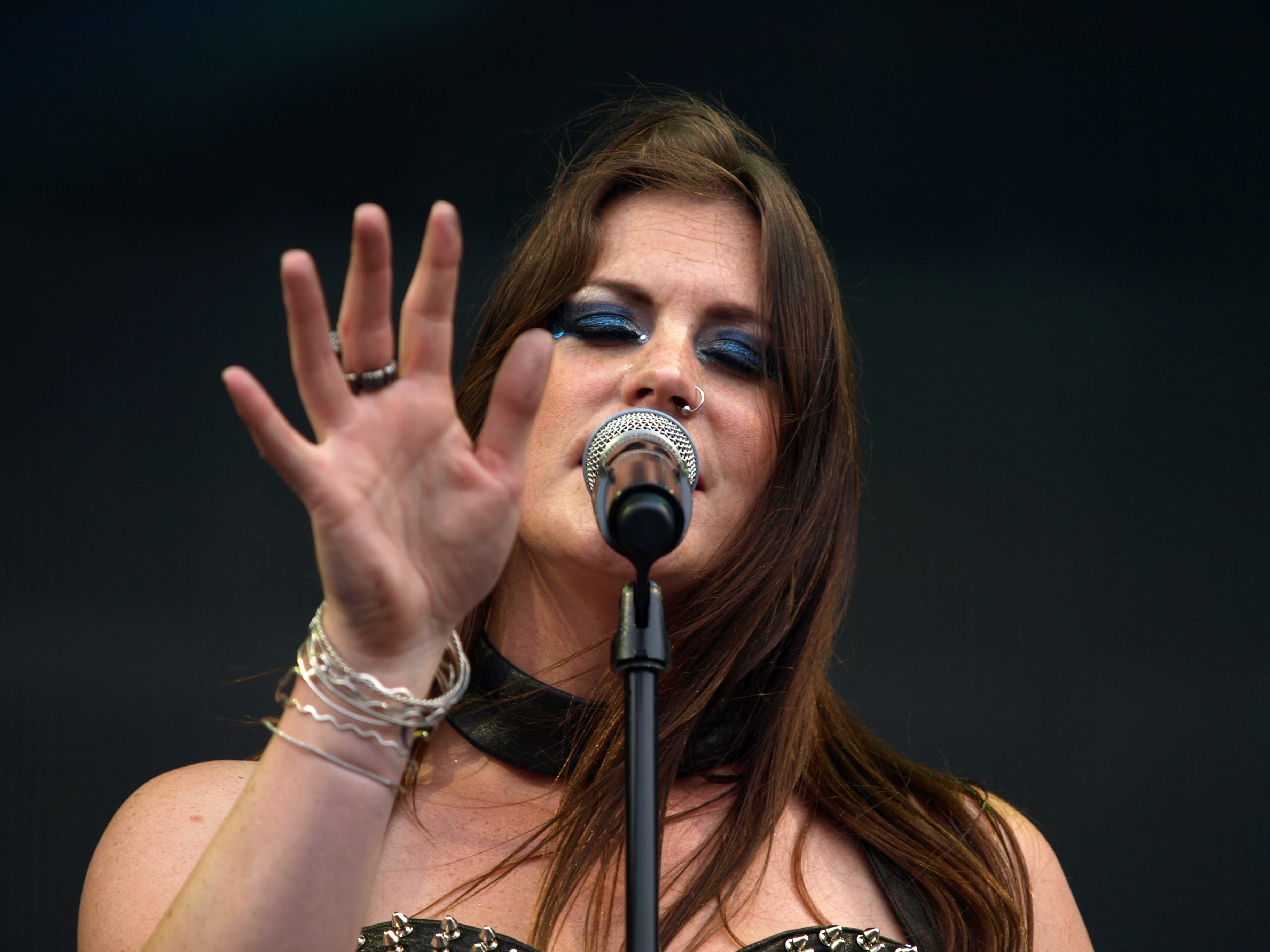 Finnish band Nightwish at Tuska Open Air 2013